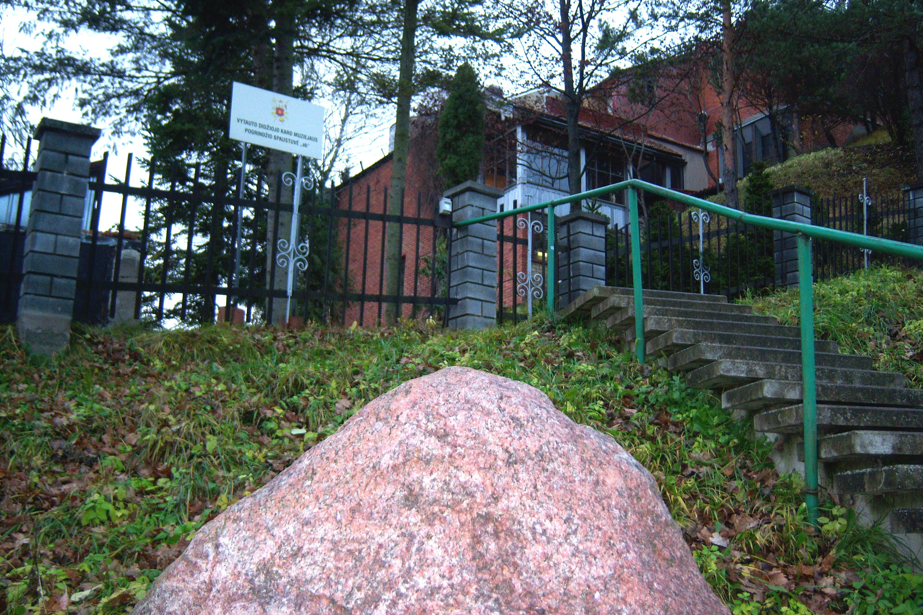 Museum of the underground printing house (Vytautas the Great War Museum affiliate), Kaunas district, Lithuania